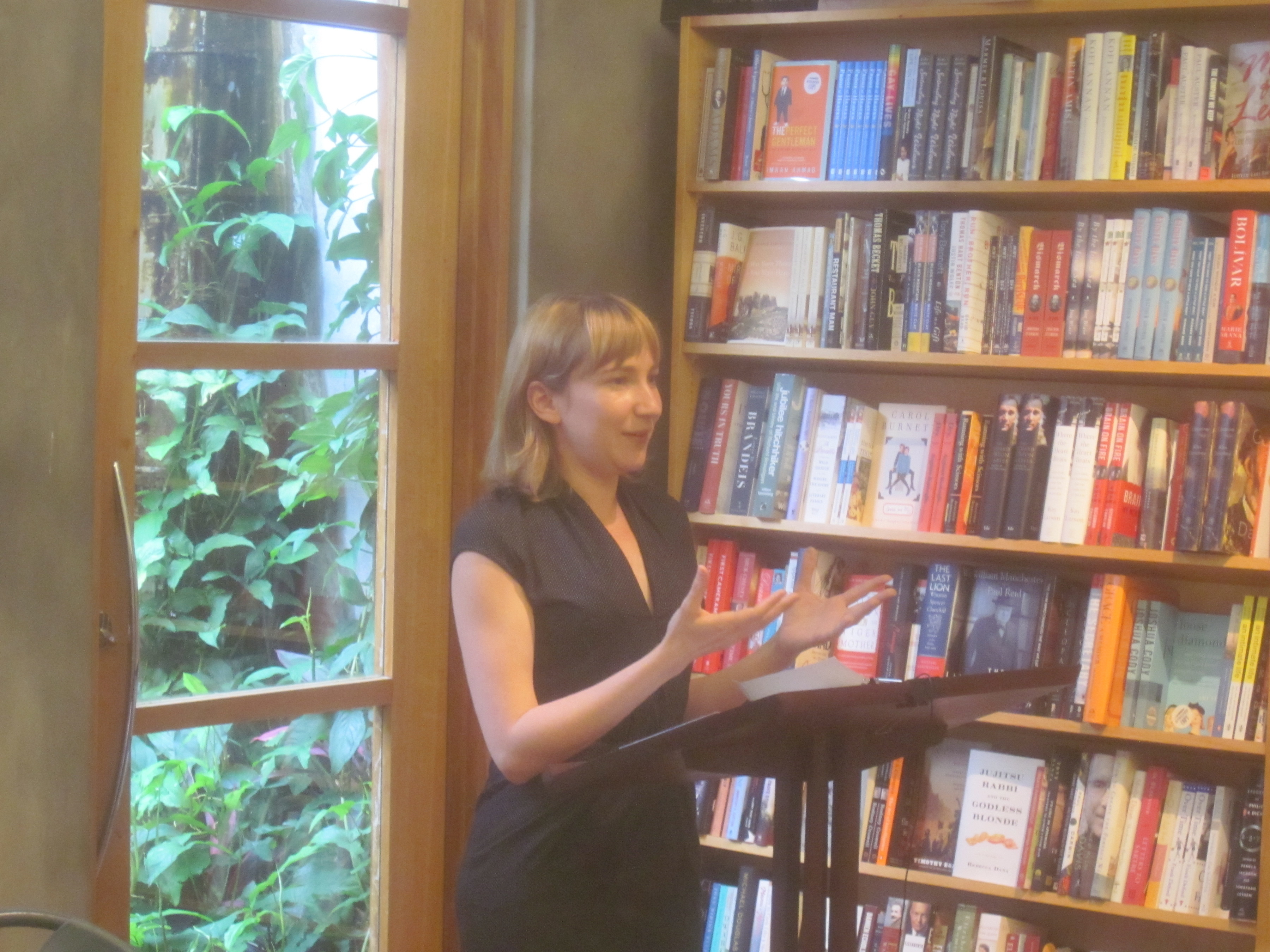 Octavia Books, Uptown New Orleans: Author Sheila Heti reads from and discusses her book "How Should a Person Be?"